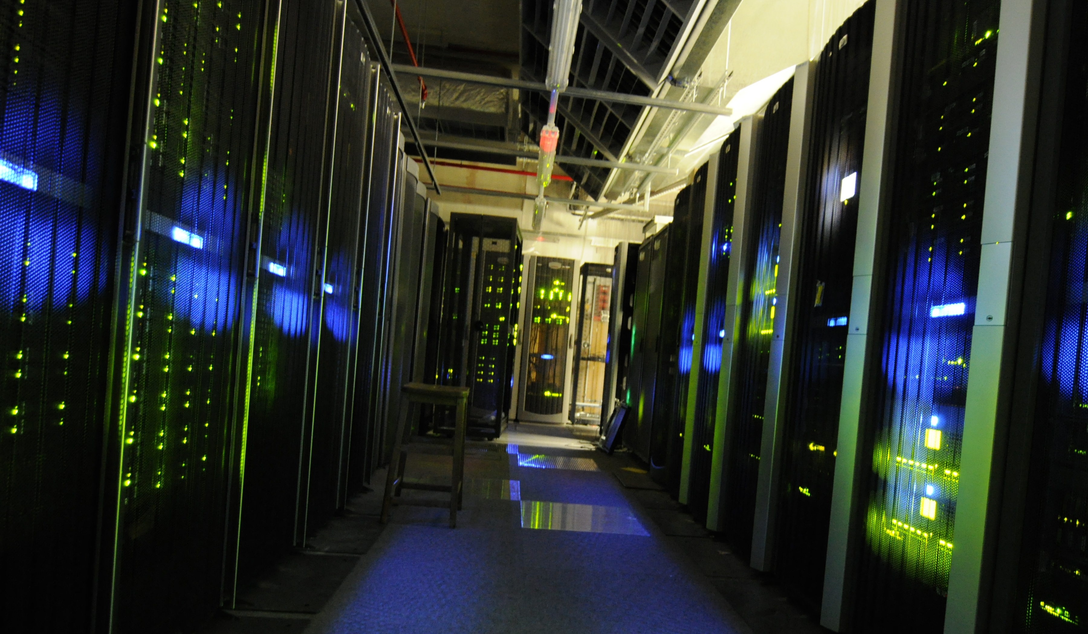 The server room at The National Archives